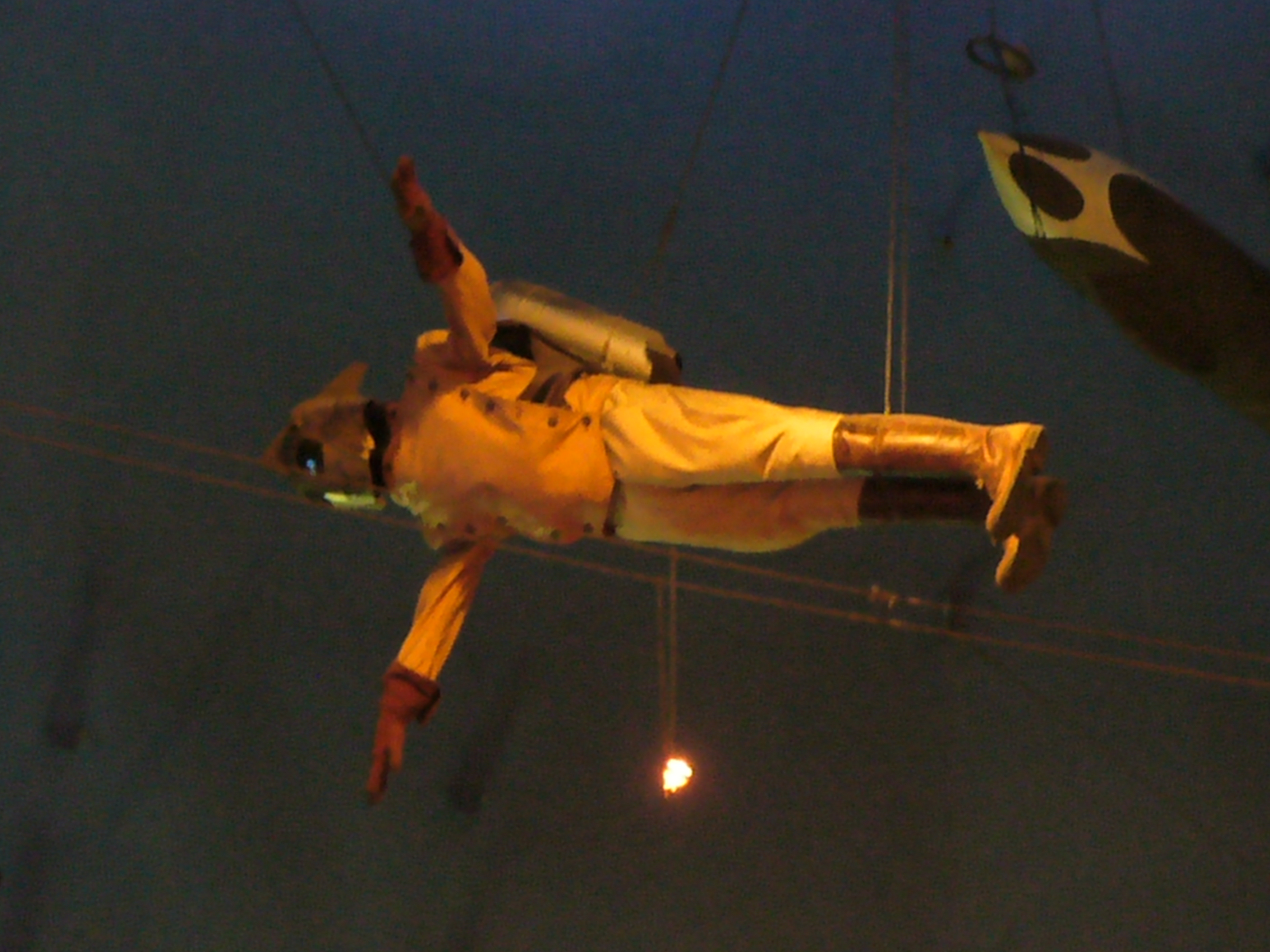 This photo depicts a Rocketeer uniform used in the making of the film "The Rocketeer". The uniform is on display in Planet Hollywood in Orlando, Florida.